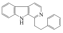 1-Phenethyl-b-carboline structure